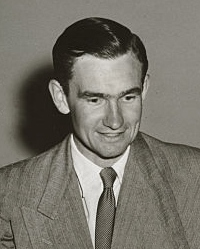 3rd Ashes Test at MCG. After the first days play the Aussies collected in the dressing room to toast each other for the new year. Jim Burke